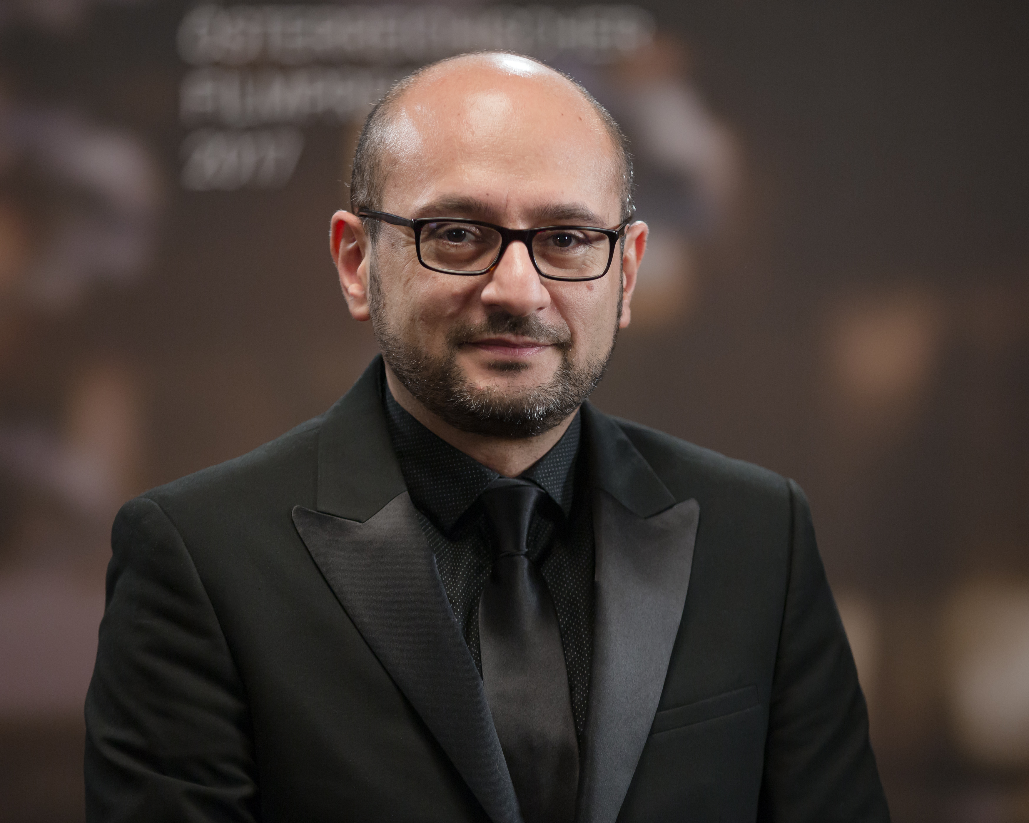 Arash T. Riahi, director and producer of Kinders, at the Austrian Film Awards 2017 (Rathaus, Vienna,Austria).